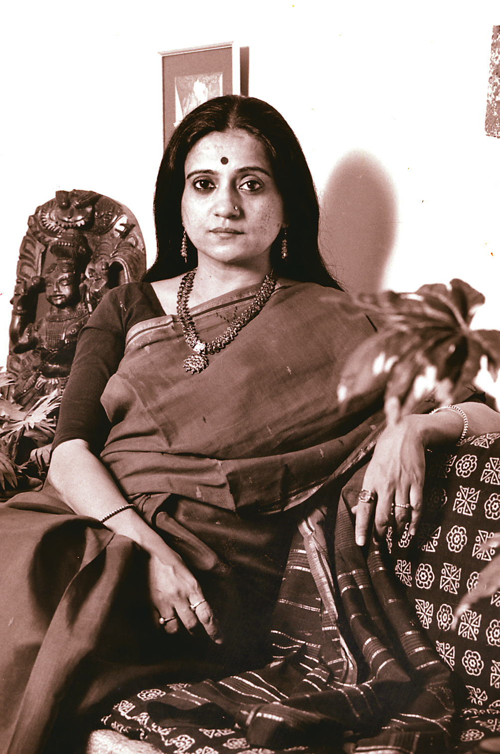 Bhawana Somaaya, when she was working as Chief Editor in Screen Magazine, 2000